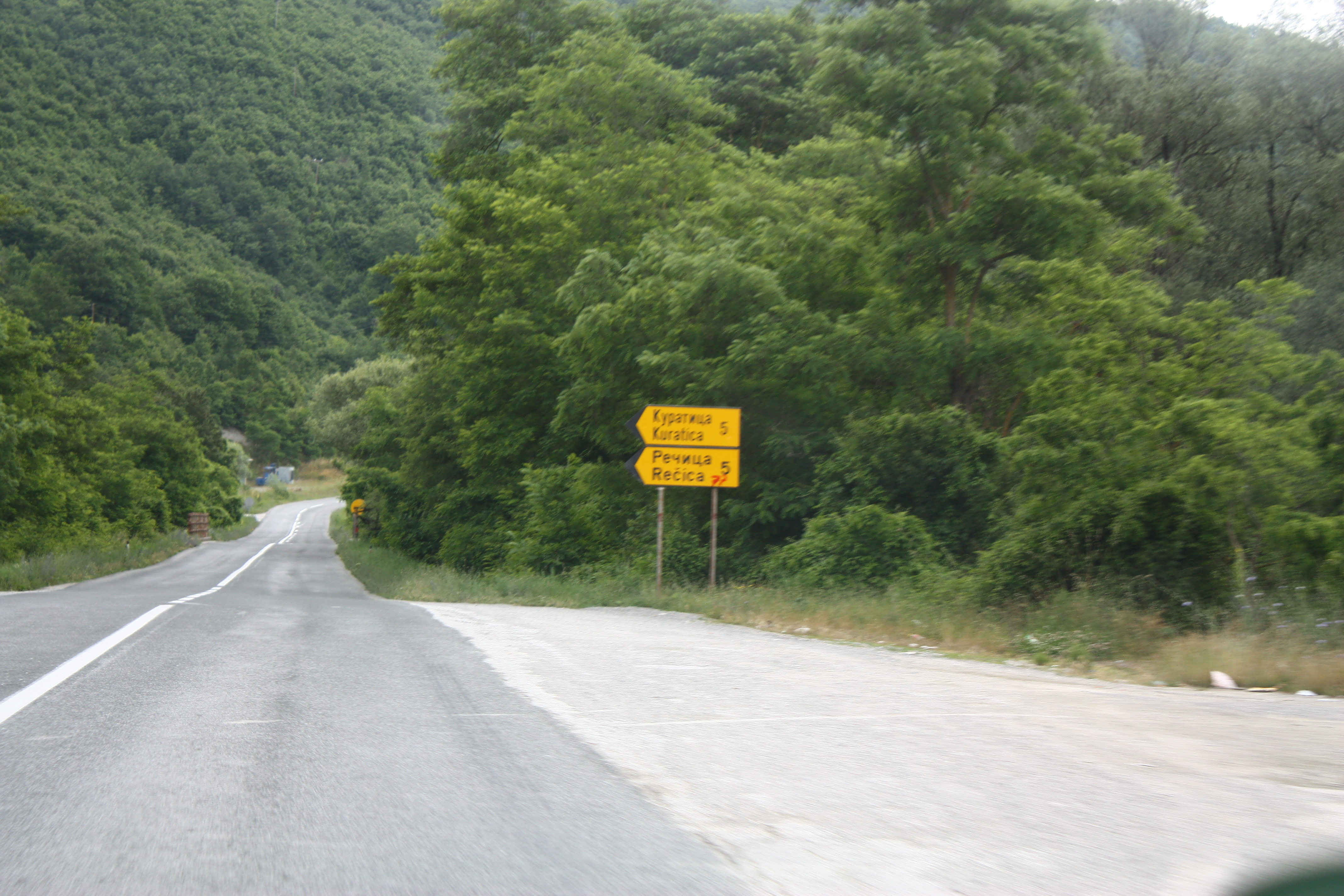 Sigh to Kuratica and Rečica, Macedonia